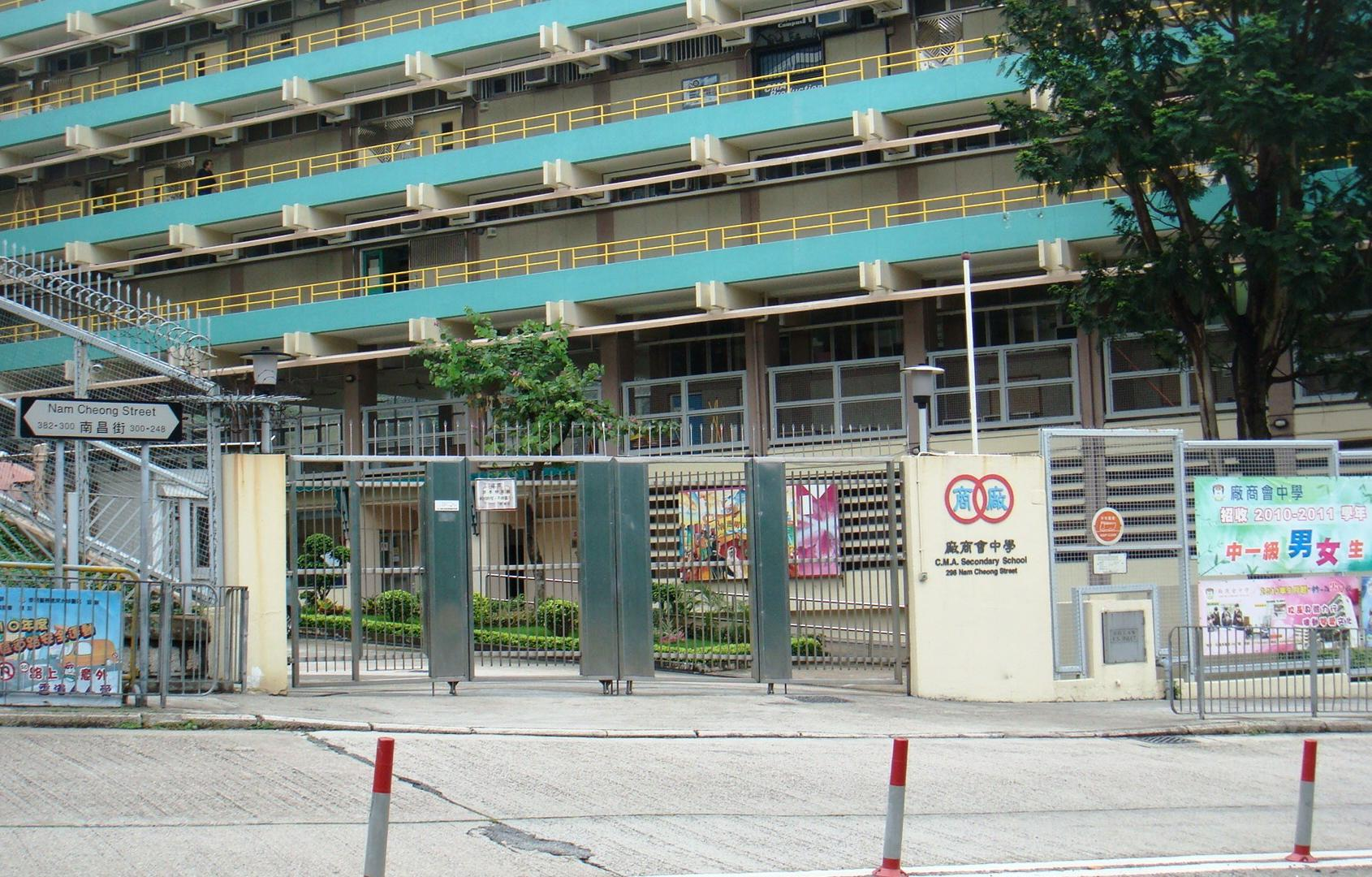 CMA Secondary School